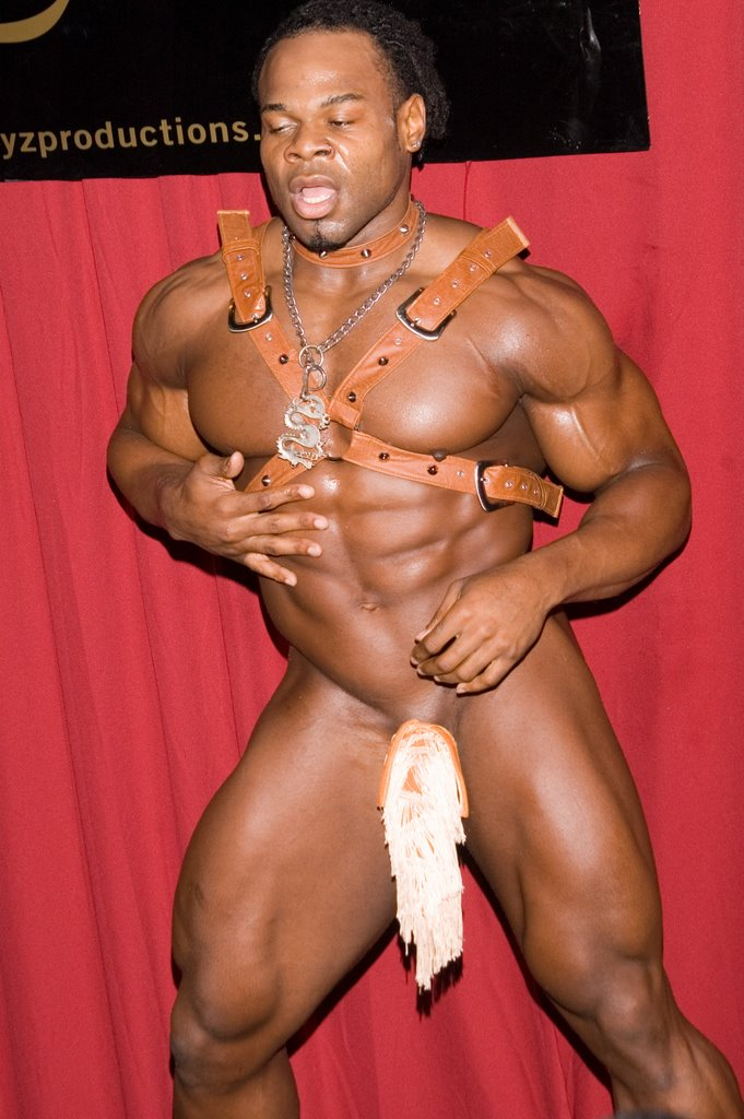 The bodybuilder Kai L. Greene at an appearance at the Faultline Bar, Los Angeles, on May 7, 2006